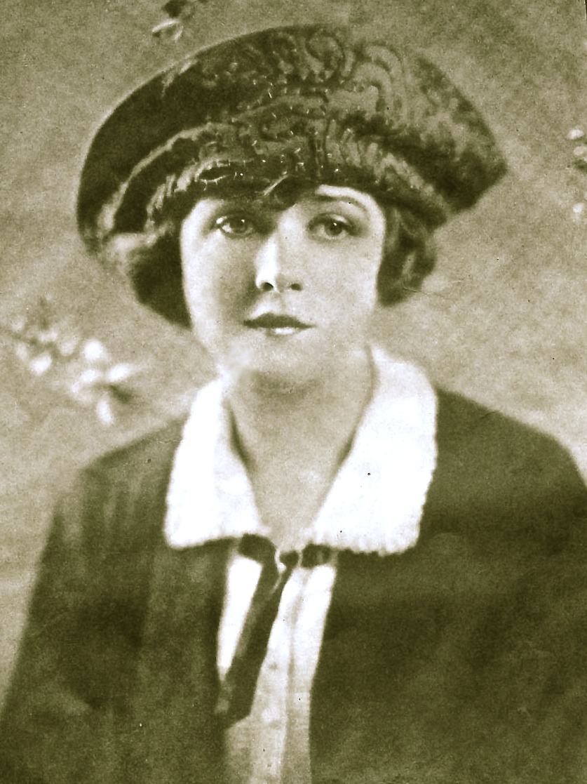 Katherine MacDonald, Filmplay Journal, January 1922